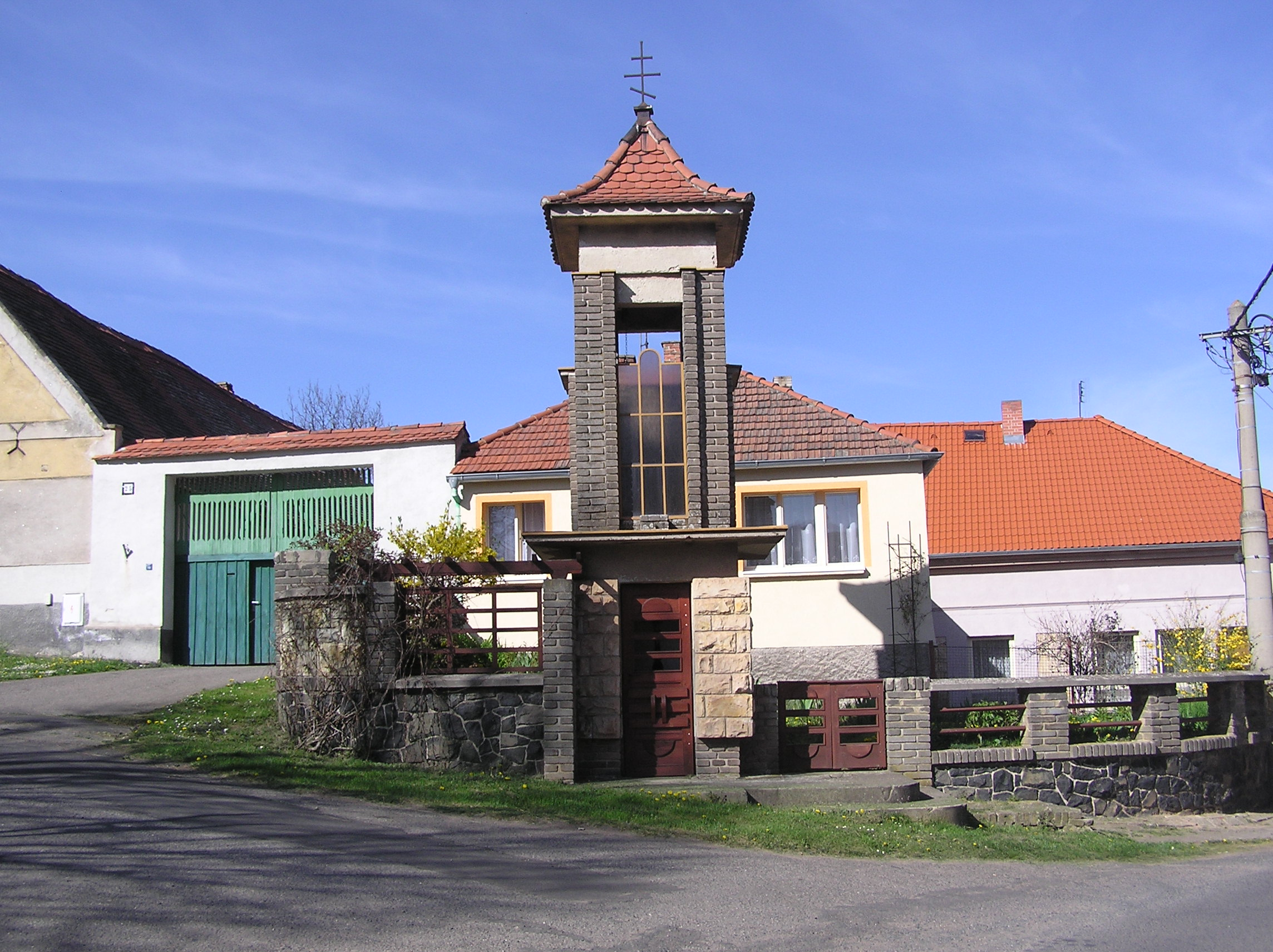 The belfry in Pnetluky, Czech Republic